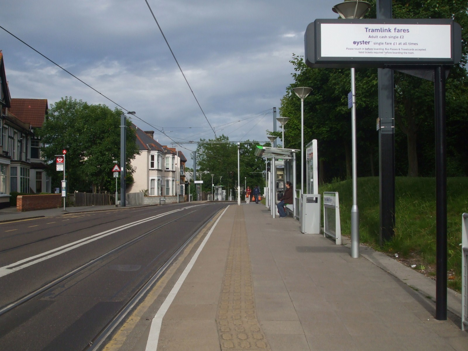 Lebanon Road tram stop westbound platform on Addiscombe Road looking east. Eastbound platform is staggered about Lebanon Road (a side road) and visible in the distance